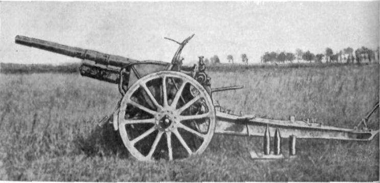 Photograph of German 7.7 cm FK 16 with ammunition.